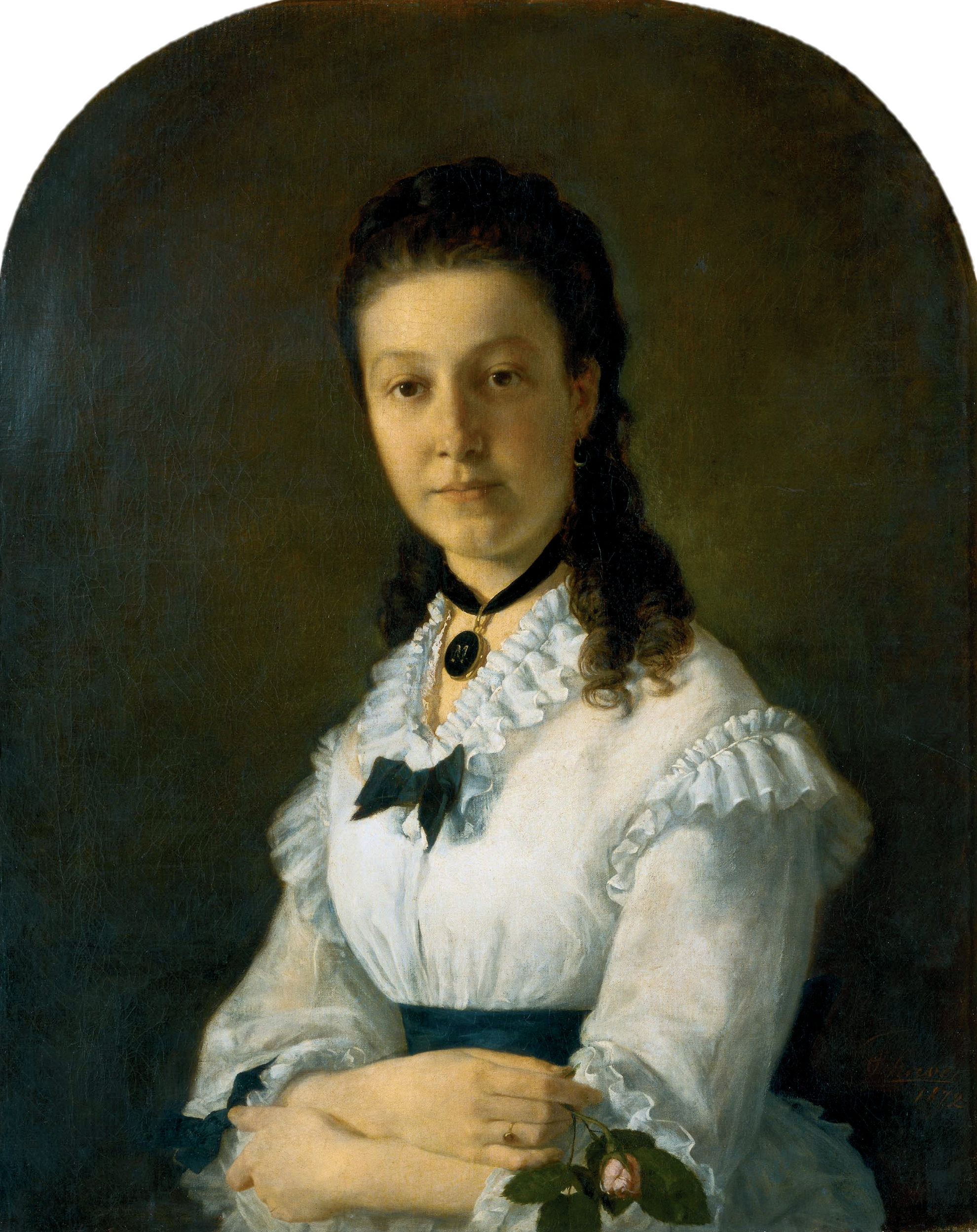 "Portrait of girl"